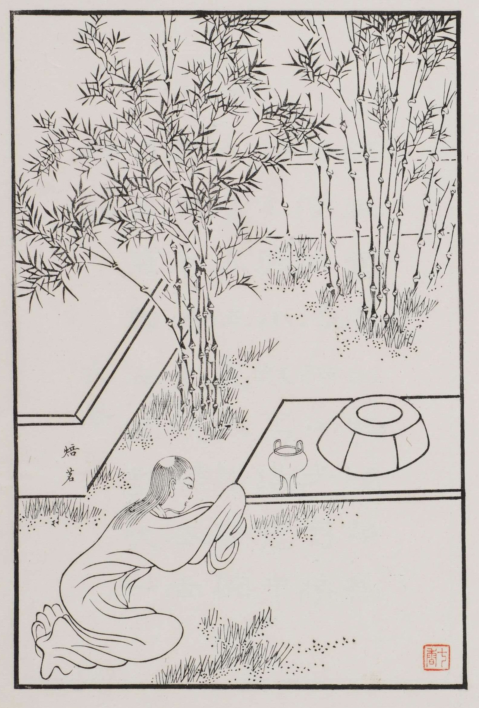 Bèimíng